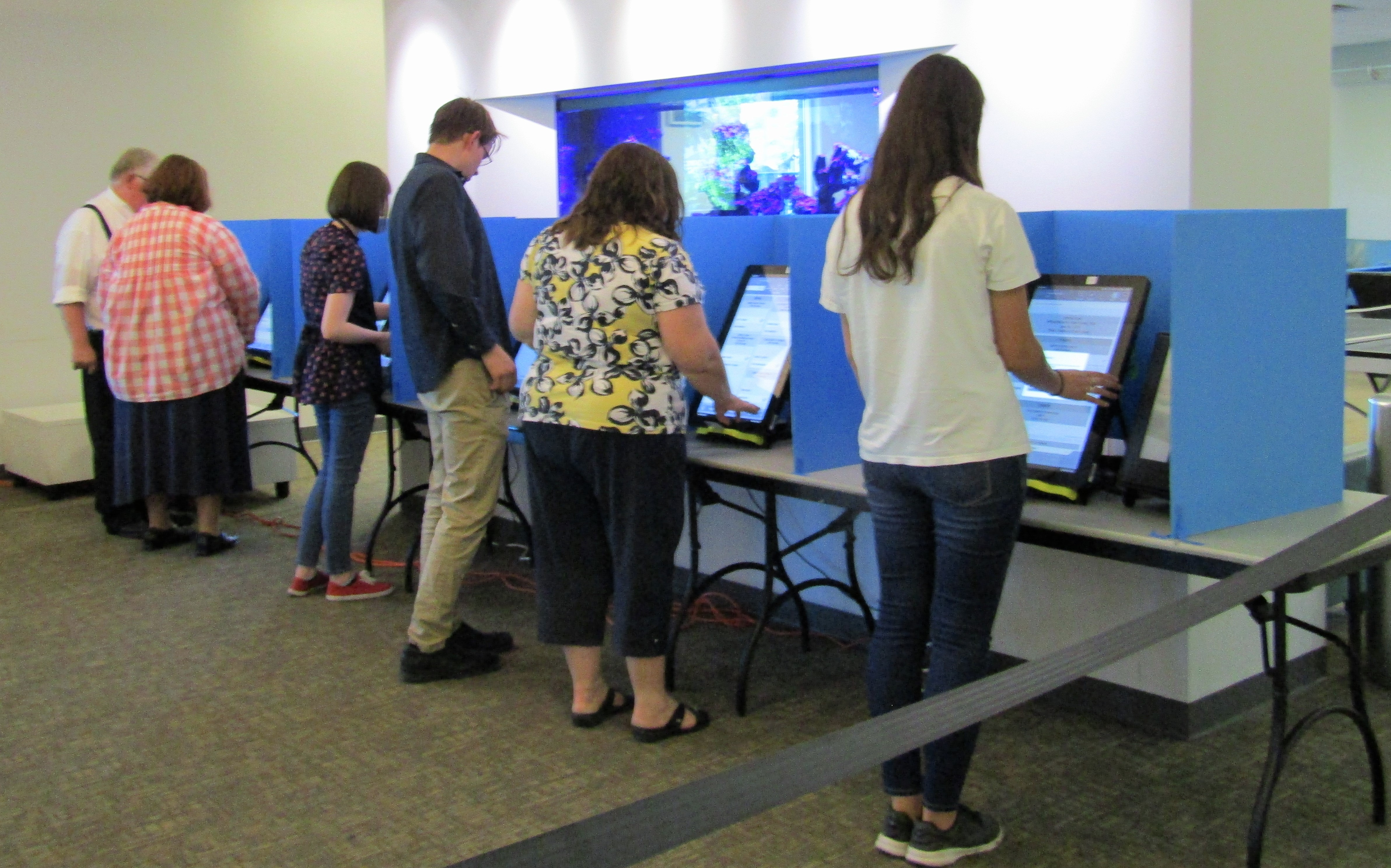 Voters choose from different Republican candidates in the Provo Recreational Center.